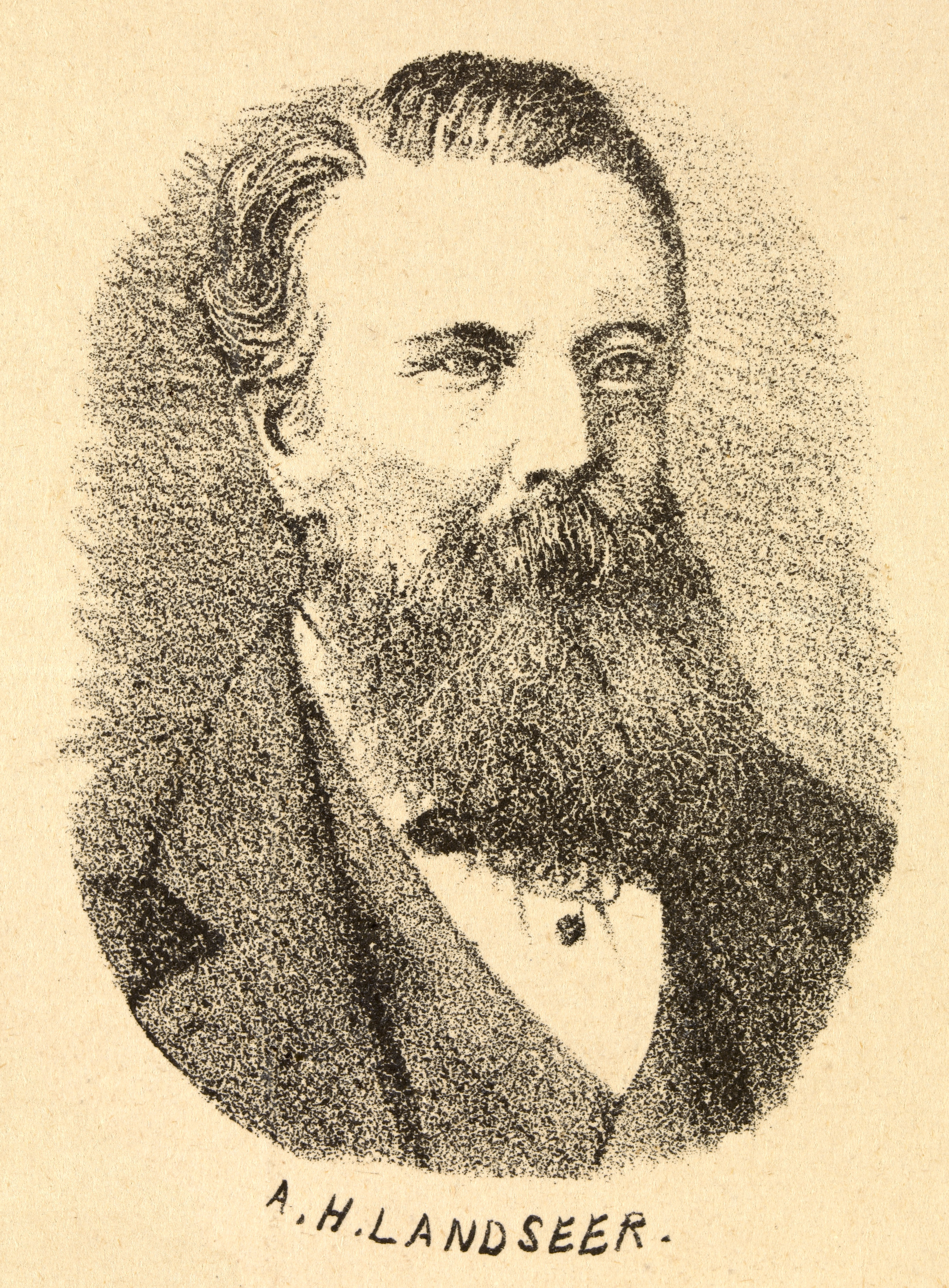 A pencil portrait of Albert H. Landseer, a member of the 10th South Australian Parliament, which was printed in a supplement to Frearson's Monthly Illustrated Adelaide News, July 1881 issue. It is an extract from a single sheet containing 46 bust portraits of members of the 10th South Australian Parliament.